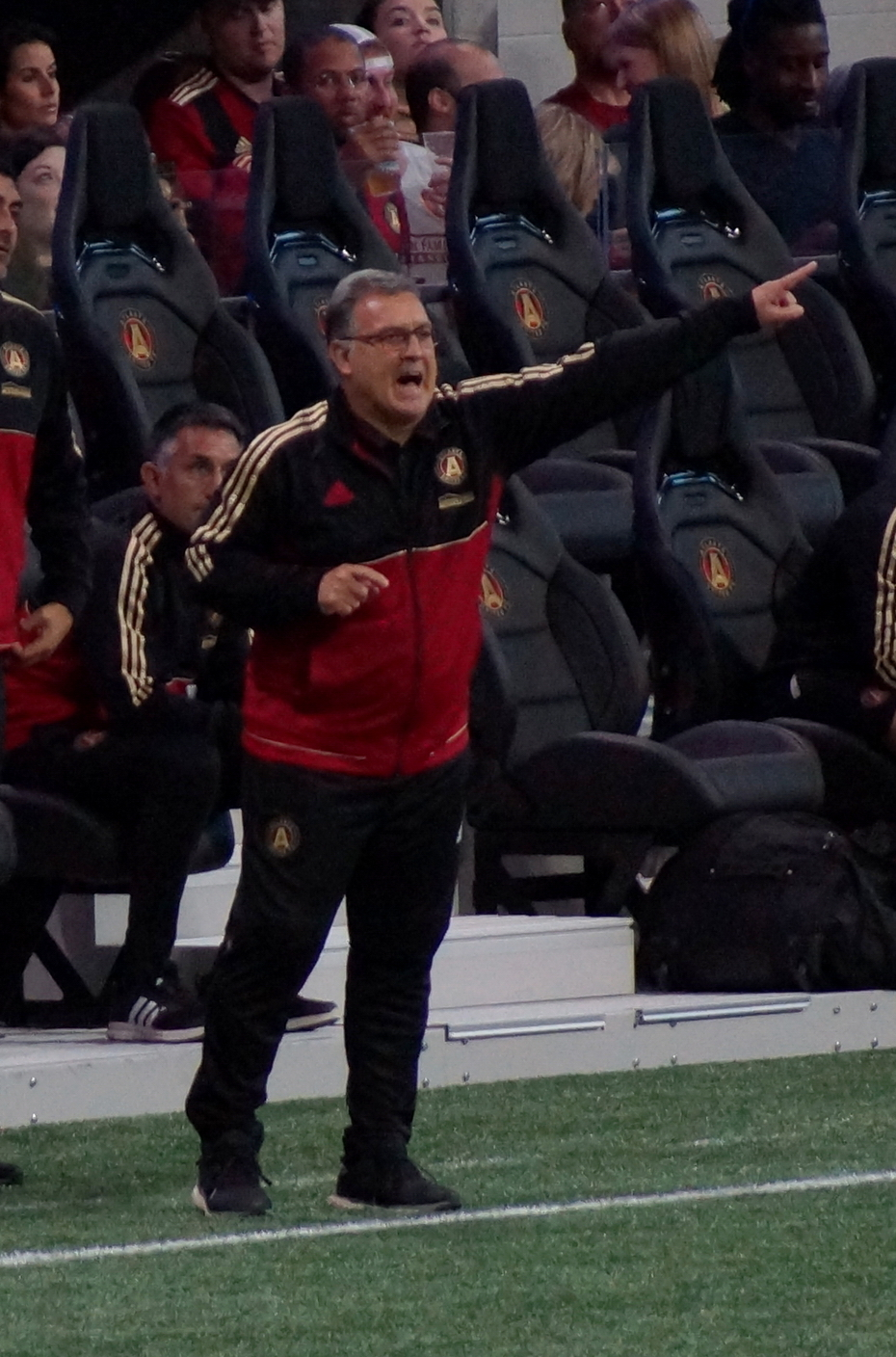 Tata Martino during the September 24, 2017 match for Atlanta United